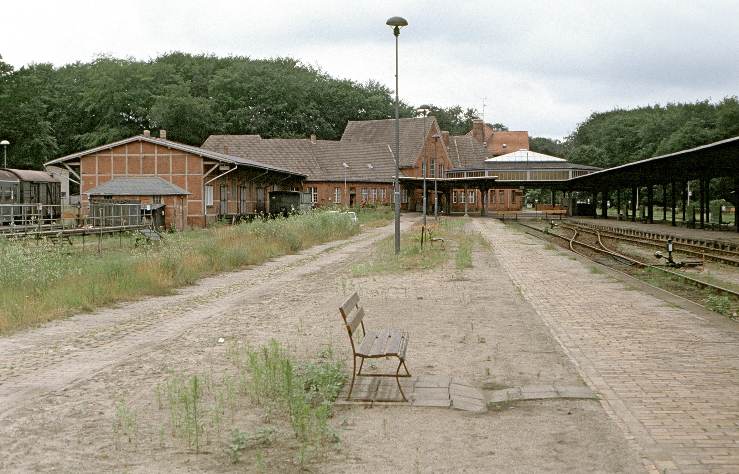 Heringsdorf railway station